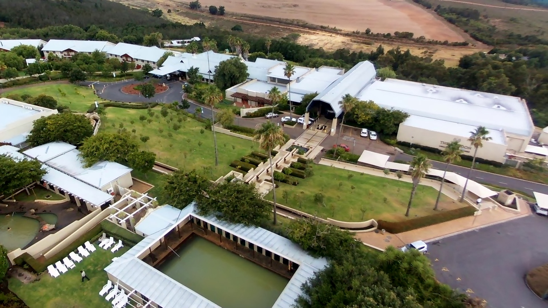 Caledon Protea Hotel